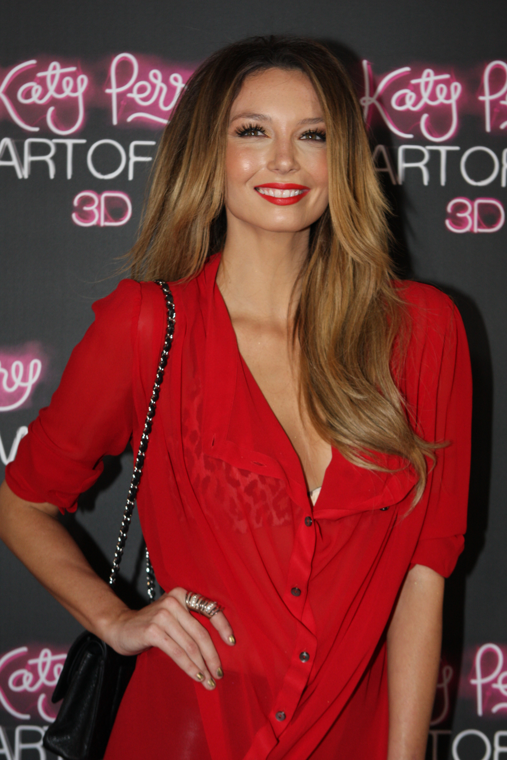 Katy Perry 'Part Of Me' movie premiere in Sydney, Australia Tonight Katy Perry walked the red carpet in Sydney, Australia, as she premiered her new movie 'Part Of Me'. Hundreds of fans and dozens of news media were on had to witness the star promoting her new movie. Yes, there's the element of Katy getting over ex Russell Brand, and so much more. The movie sees Katy eclipse her already mega national and international success and early reports indicates the movie has won over fans and critics alike. Go girl. News Update: Katy Perry plans career break... Singer and buddy actor, Katy Perry, is planning to take a break from her busy career to cope with the split from husband Russell Brand. "I'm going to go into major hiding. I think I'll have to after this movie comes out. I am going to get a globe and spin it and point my finger at a place and then head there. I have always wanted to do that since I was a little kid". The singer reportedly also told her entourage the same thing. Katy Perry: Part Of Me - credits... Directors: Dan Cutforth, Jane Lipsitz Stars: Katy Perry, Shannon Woodward and Lucas Kerr Katy Perry - Herself Shannon Woodward - Herself Lucas Kerr - Boyfriend Rachael Markarian - Herself Mia Moretti - Herself Glen Ballard Himself Websites Katy Perry 'Part Of Me' official website Katy Perry official website Paramount Pictures Australia Event Cinemas Eva Rinaldi Photography Eva Rinaldi Photography Flickr Music News Australia